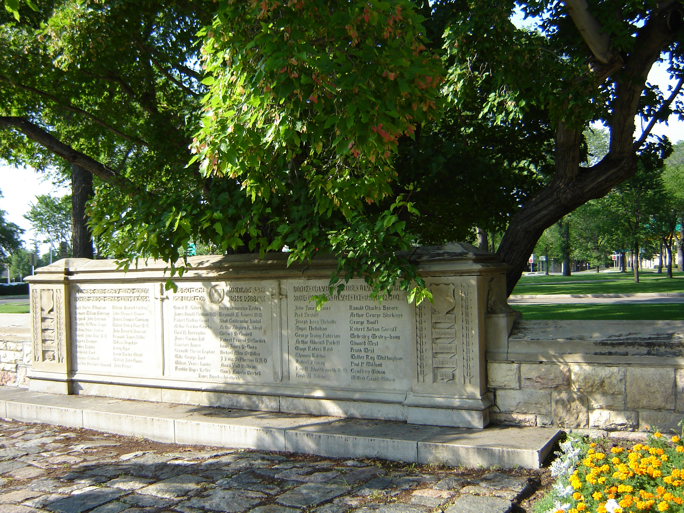 Memorial Gates U of S Saskatoon Saskatchewan Canada